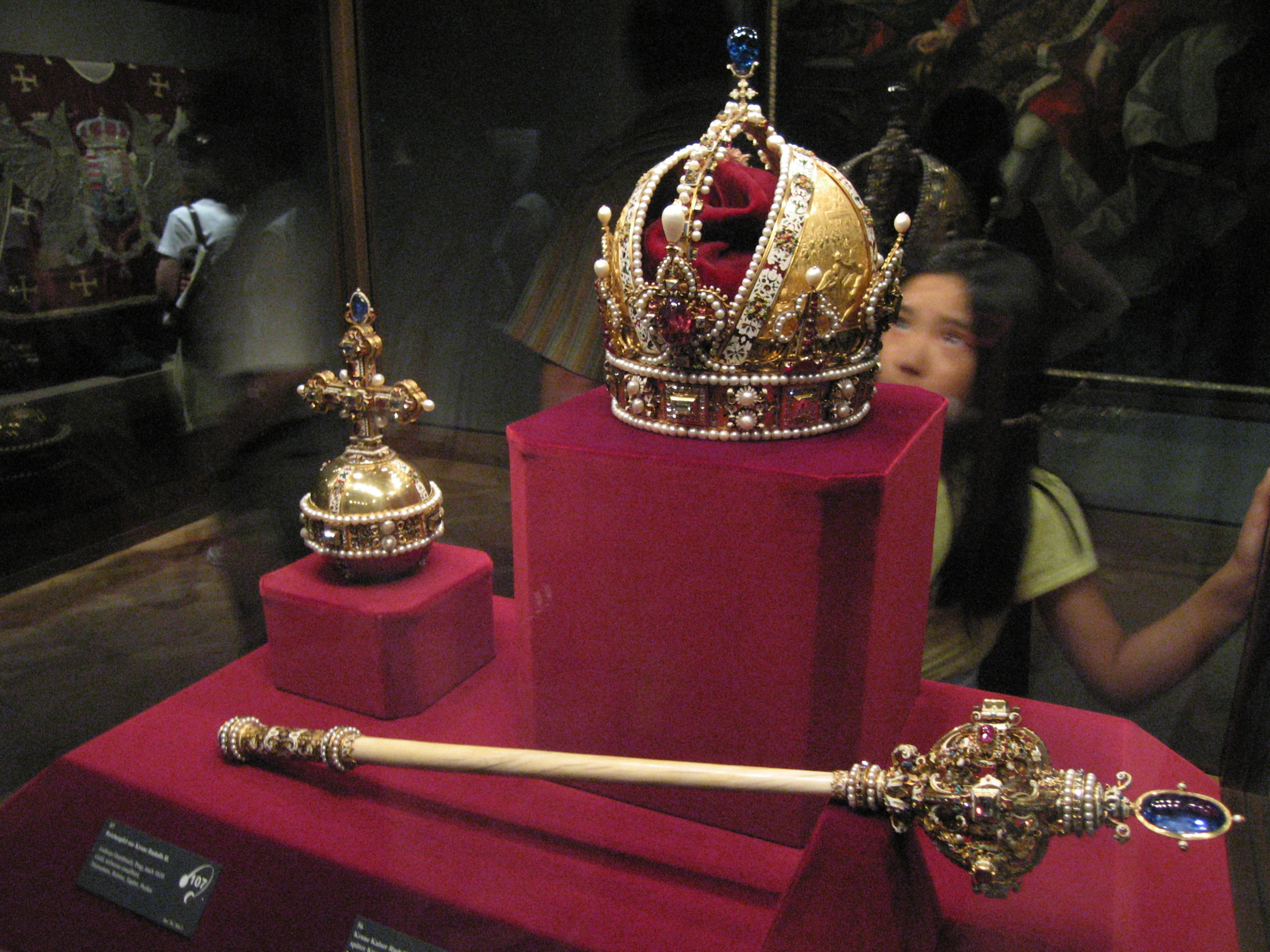 The Austrian Imperial Crown Jewels, displayed in the Schatzkammer in Vienna. Shown here are the three most important pieces: The Crown of Rudolf II, the Orb and the Sceptre. The handle of the sceptre is manufactured from a narwahl tusk. A seemingly fascinated girl closely inspects the crown.